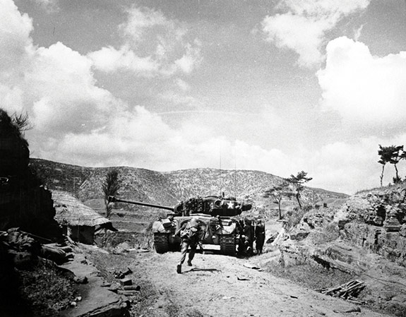 M26 tank west of Masan during Pusan Perimeter engagement, late summer 1950.